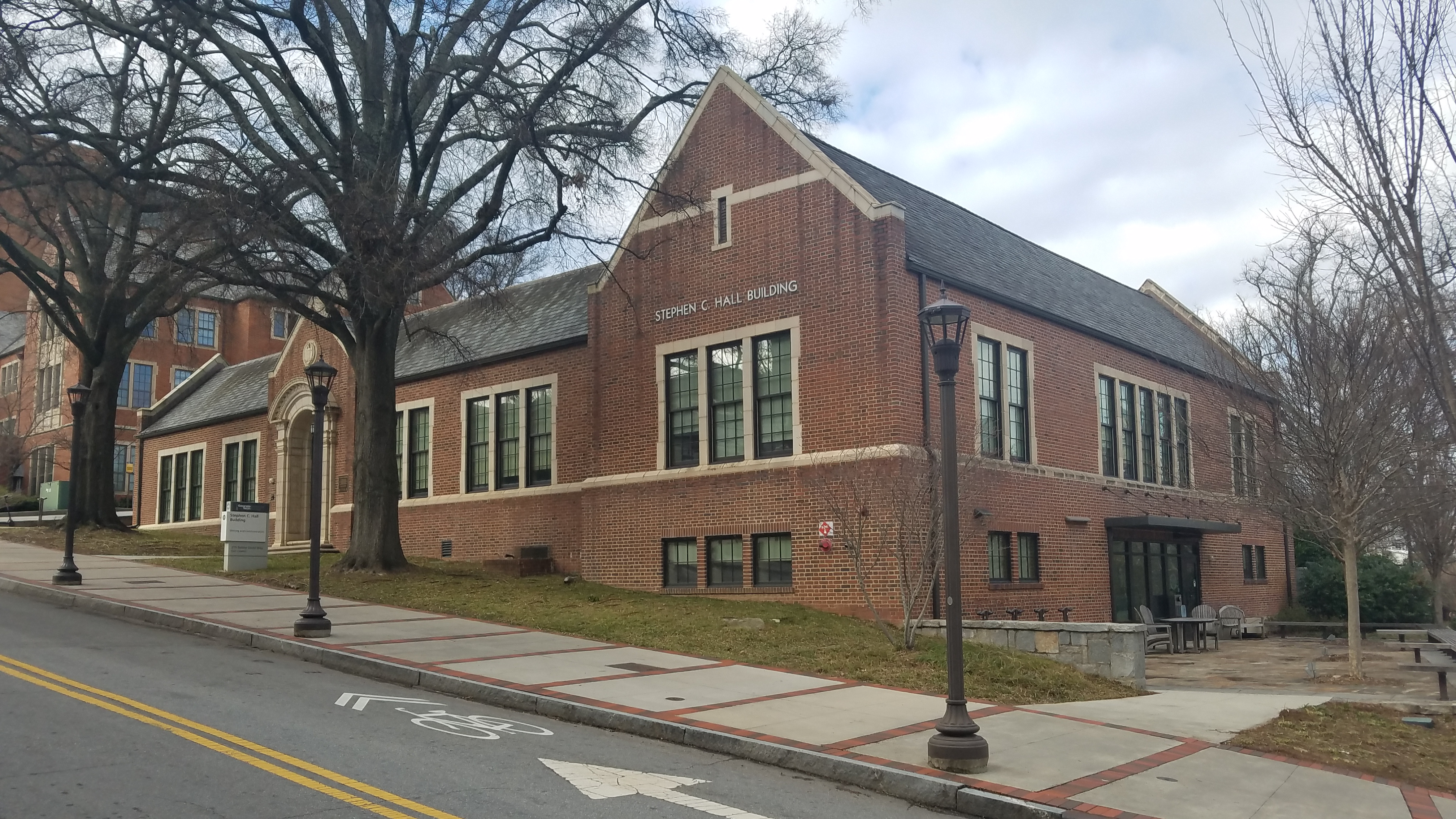 Stephen C. Hall Building on the main campus of the Georgia Institute of Technology, Atlanta, Georgia, United States